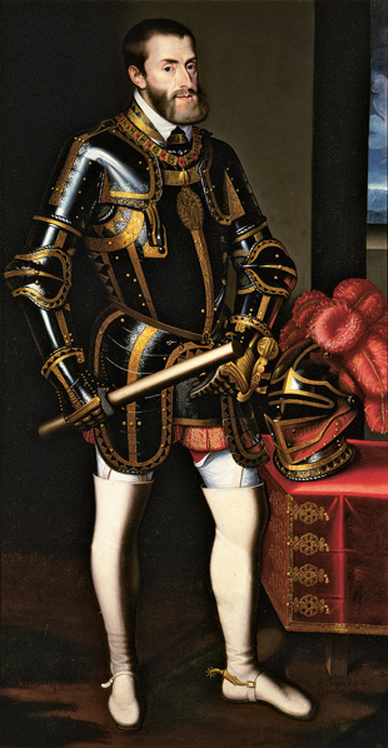 Portrait of Emperor Charles V, Hasbourg